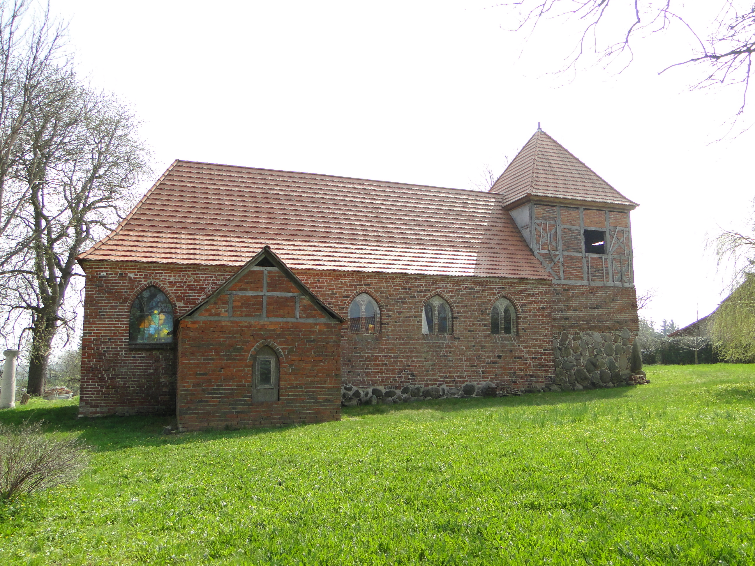 Church in Müsselmow, district Ludwigslust-Parchim, Mecklenburg-Vorpommern, Germany